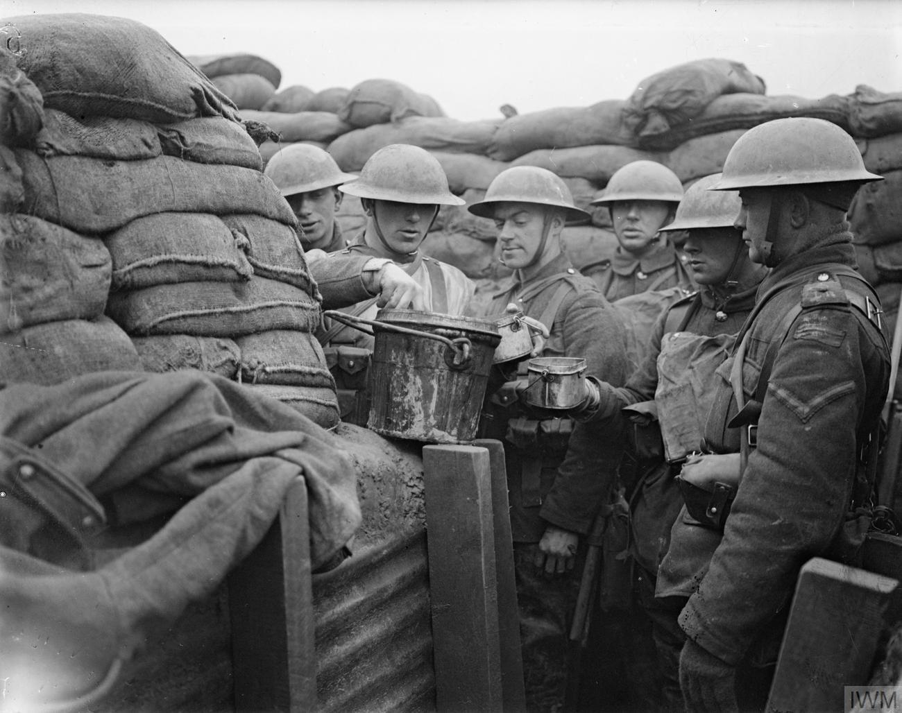 The British Army on the Western Front, 1914-1918 Serving hot stew to the troops of the Lancashire Fusiliers in the front line trench from a container. Opposite Messines, near Ploegsteert Wood, March 1917.